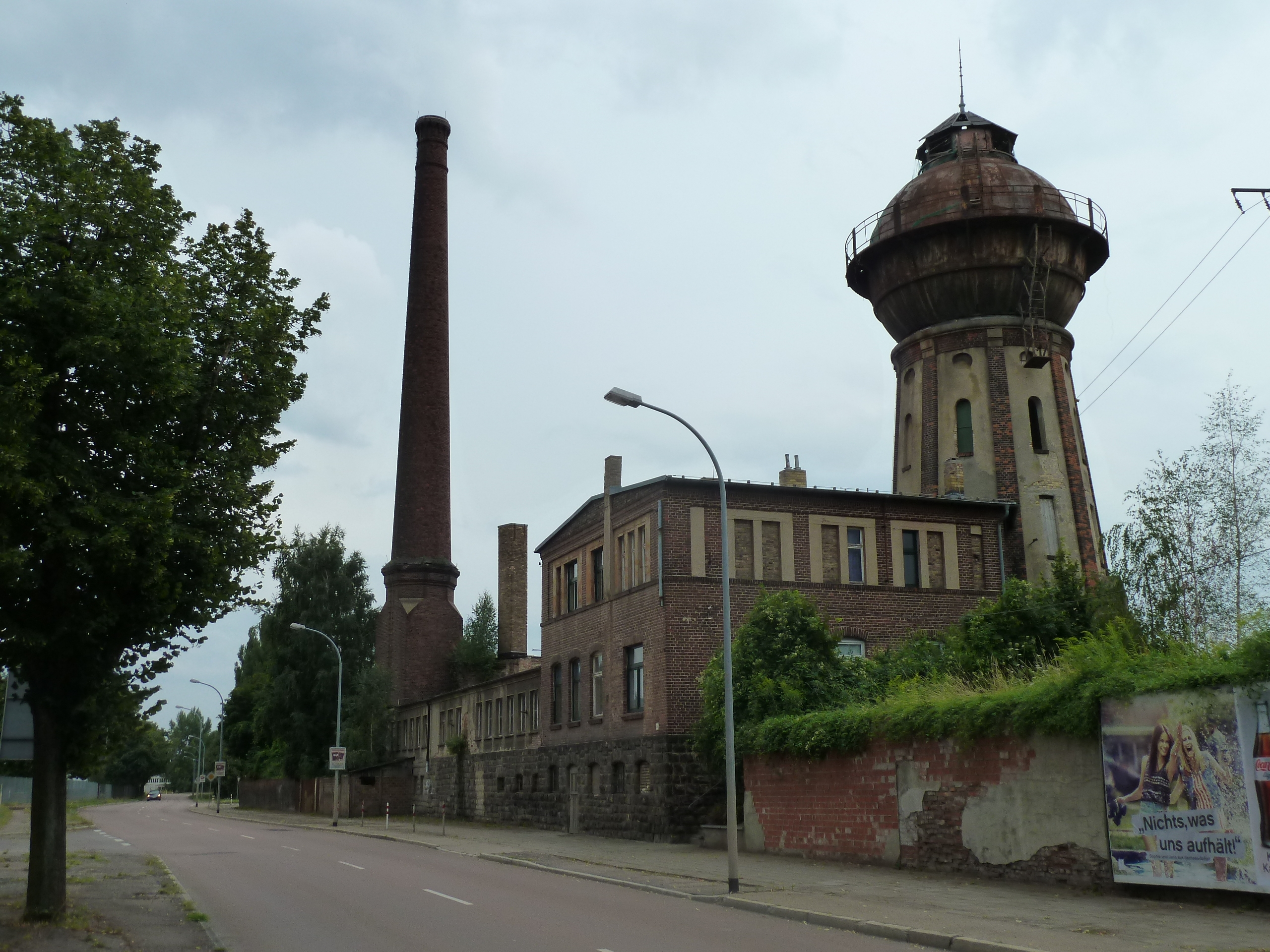 Water tower and house for railway workers in Köthen, cultural heritage view from Holländerweg